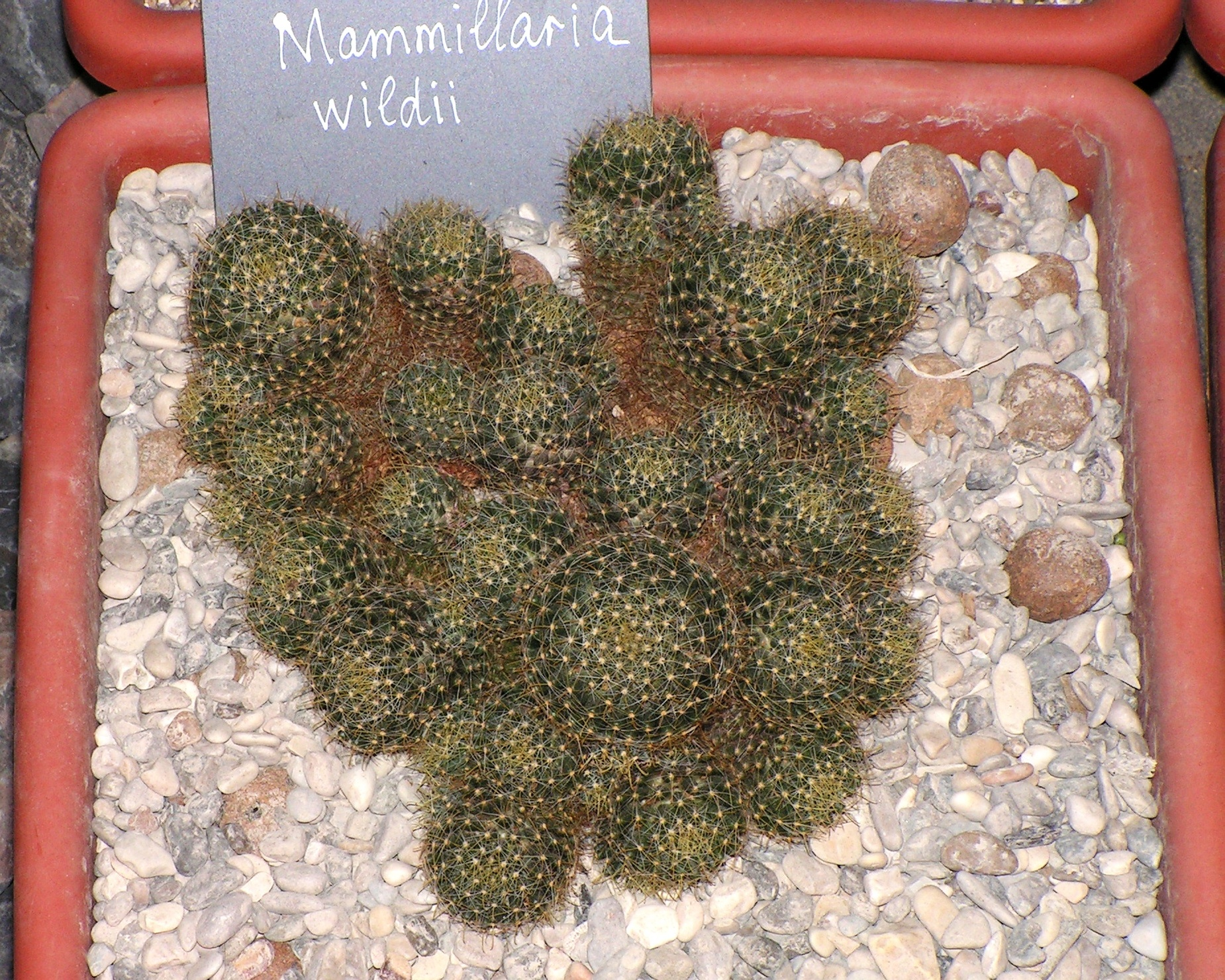 Habit of Mammillaria crinita subsp. wildii. New exposition of succulents of Moscow State University’s Botanical Garden (Apothecary Garden). Moscow, Russia.